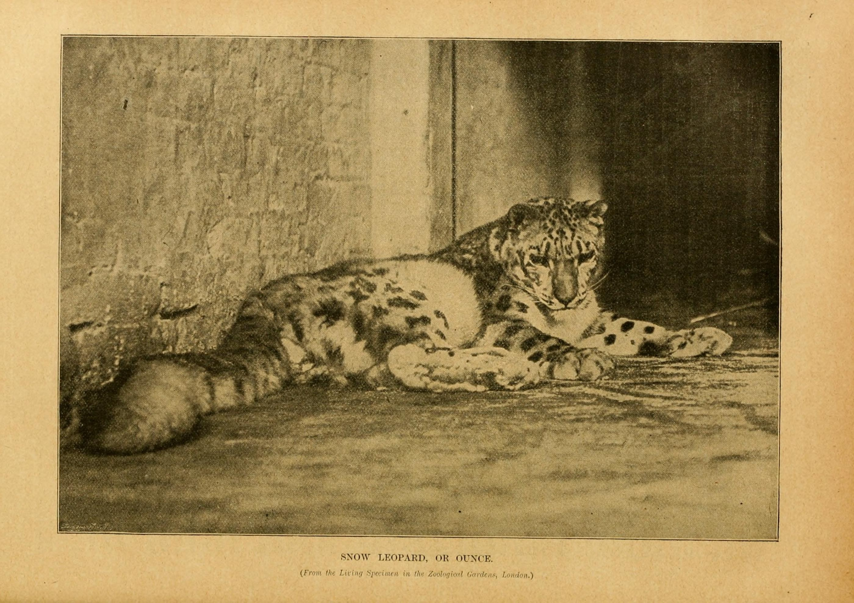 Cassell's natural history. Ed. by P. Martin Duncan ...